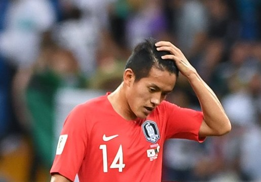 Mexico and South Korea match at the FIFA World Cup 2018-06-23